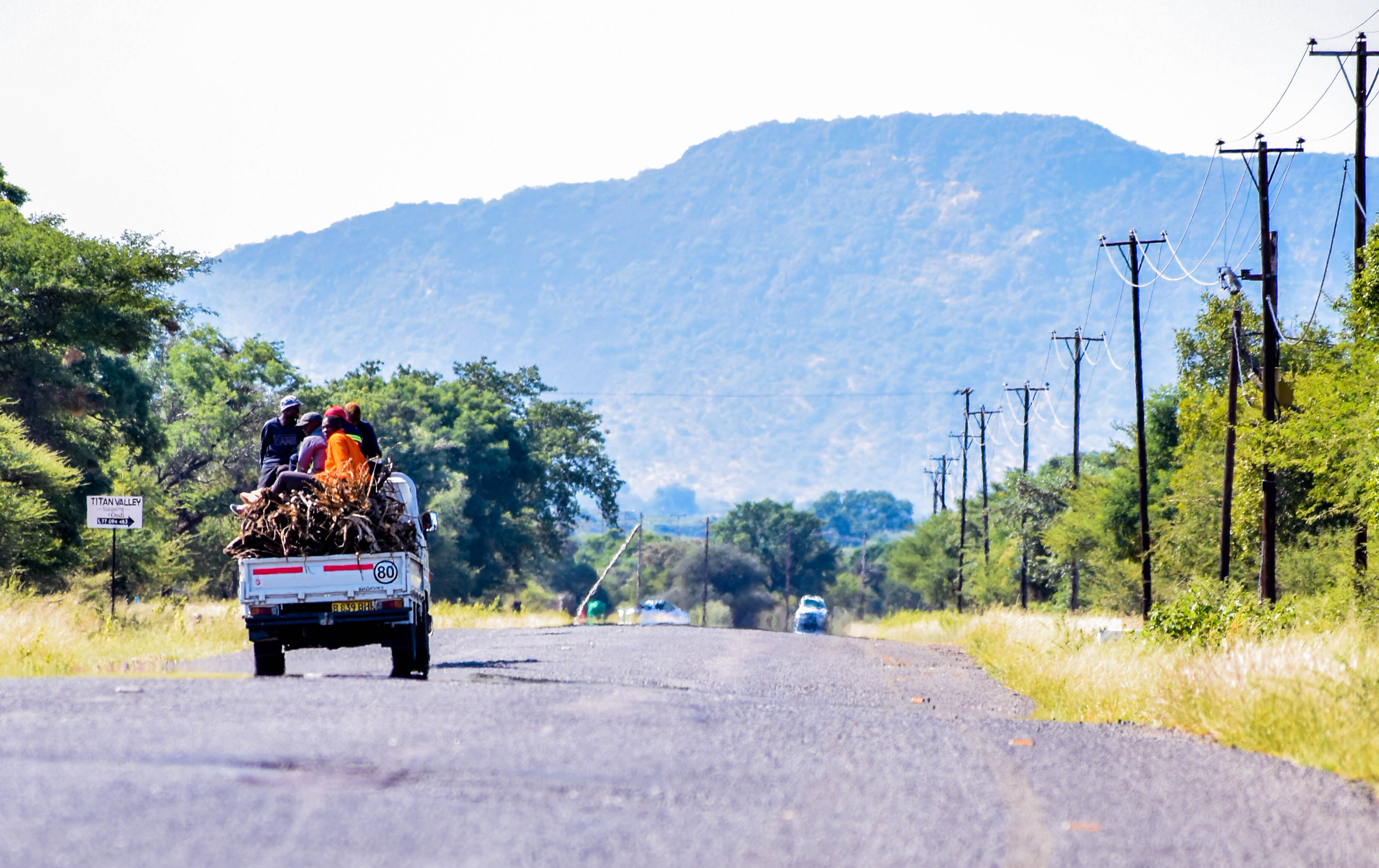 This is an image with the theme "Africa on the Move or Transport" from: Botswana